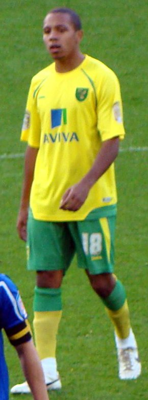 Korey Smith cropped from 30/10/10 Cardiff V Norwich, Championship, Cardiff City Stadium, Cardiff, Wales